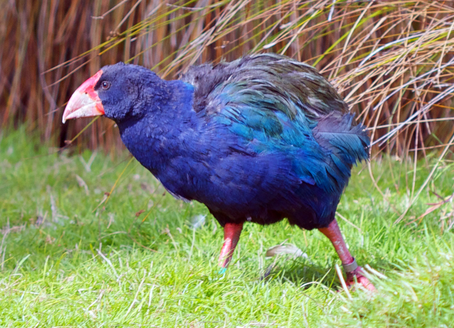 Takahe in Te Anau.